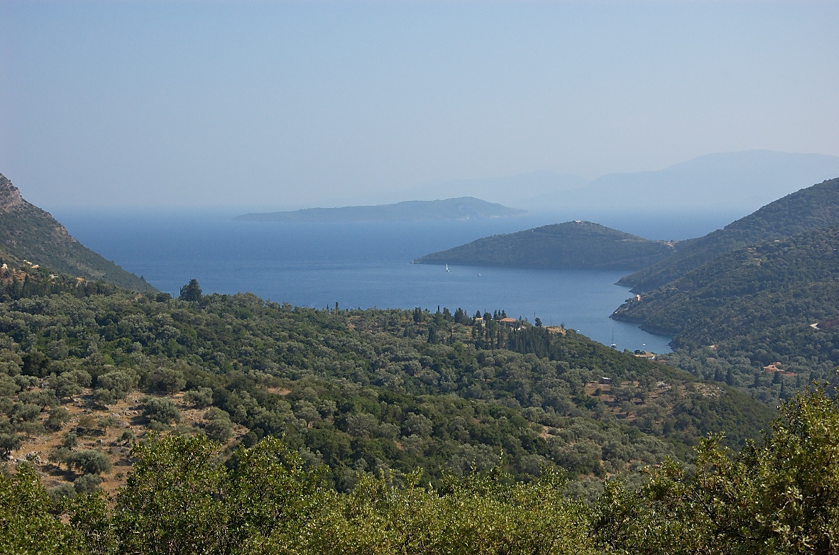 View from Mikros Gialos, Lefkada, Greece. The island is Arkoudi.